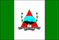 Flags of the city of Alto Caparaó, Minas Gerais, Brazil.